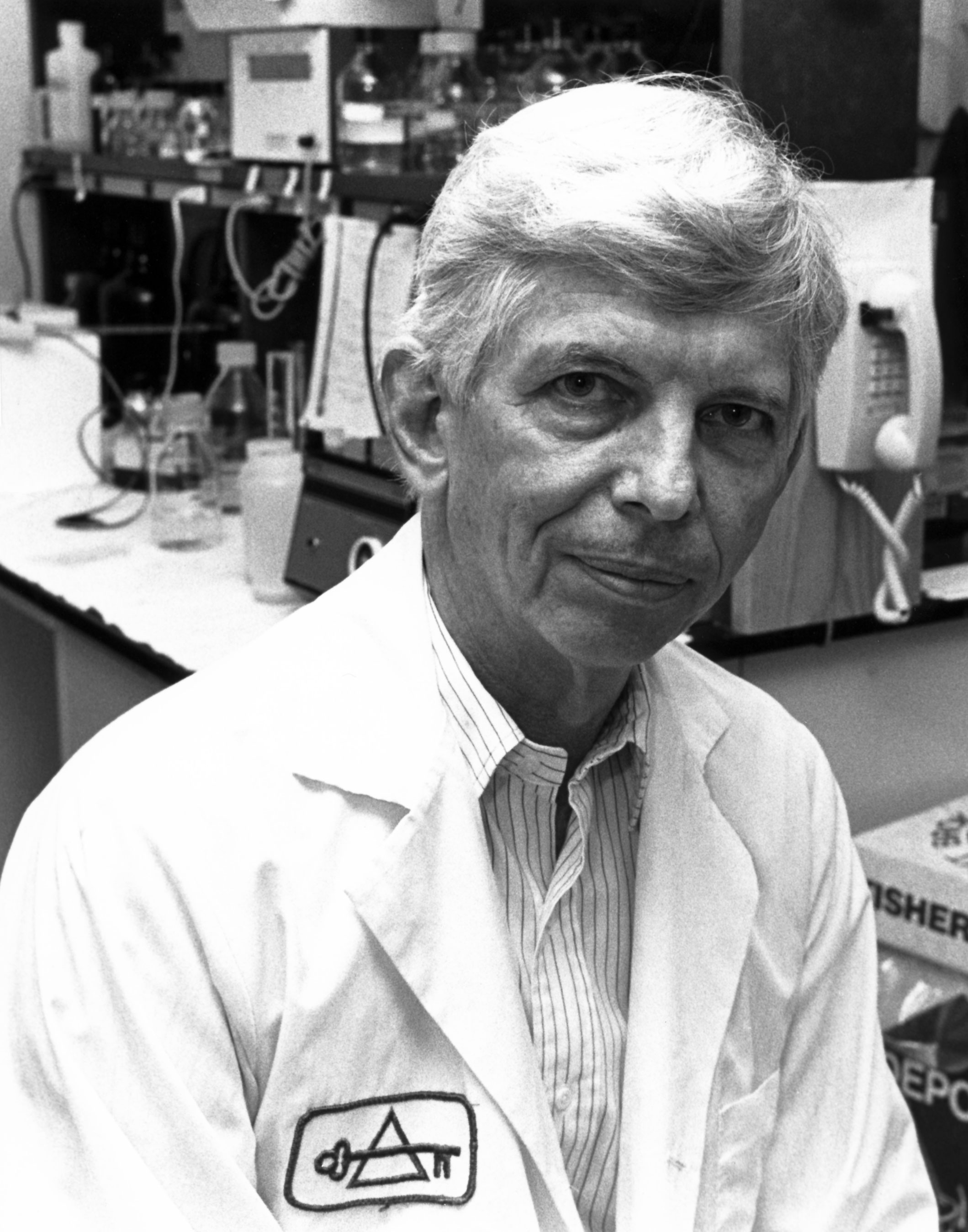 Title: Historical Portrait: Alfred Knudson Description: Historical Portrait of Alfred Knudson. Subjects (names): Knudson, Alfred Topics/Categories: Historical -- People People -- Professional Type: B&W Source: General Motors Author: Unknown Date Created: Unknown Date Added: 2/26/2010 Reuse Restrictions: None - This image is in the public domain and can be freely reused. Please credit the source and/or author listed above.